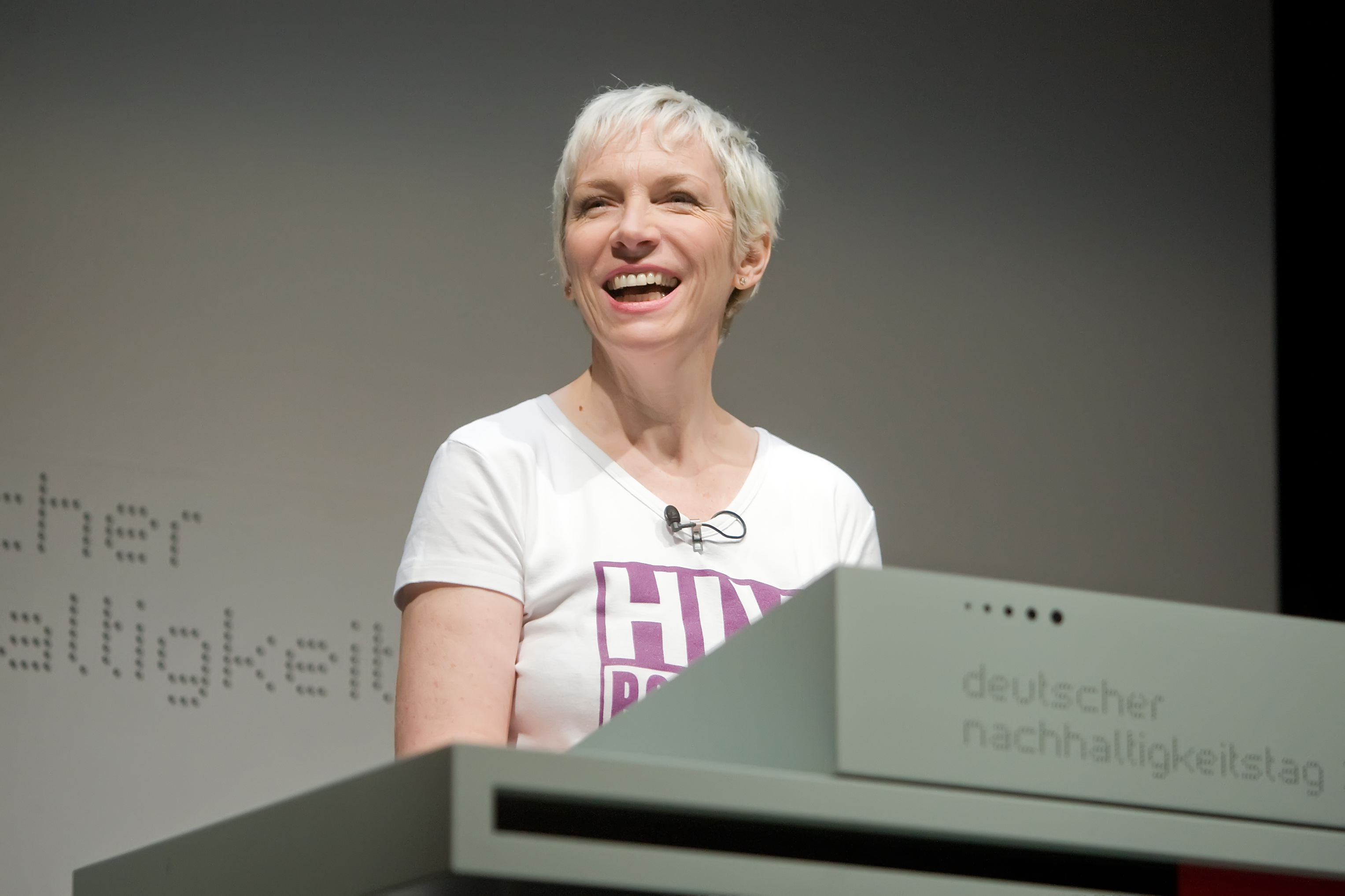 Laureate 2008